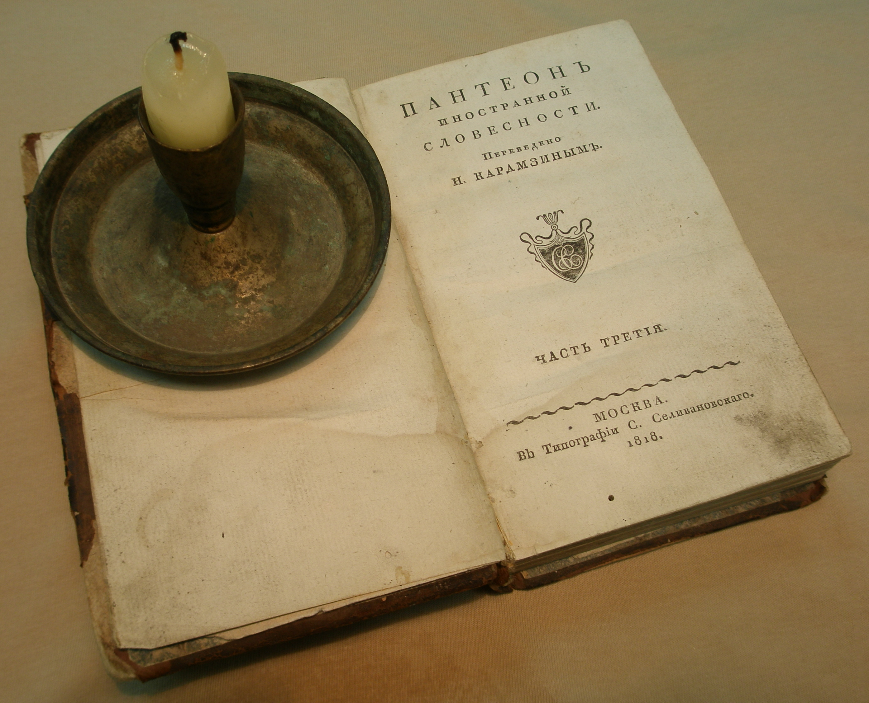 экспонат Братского музея света